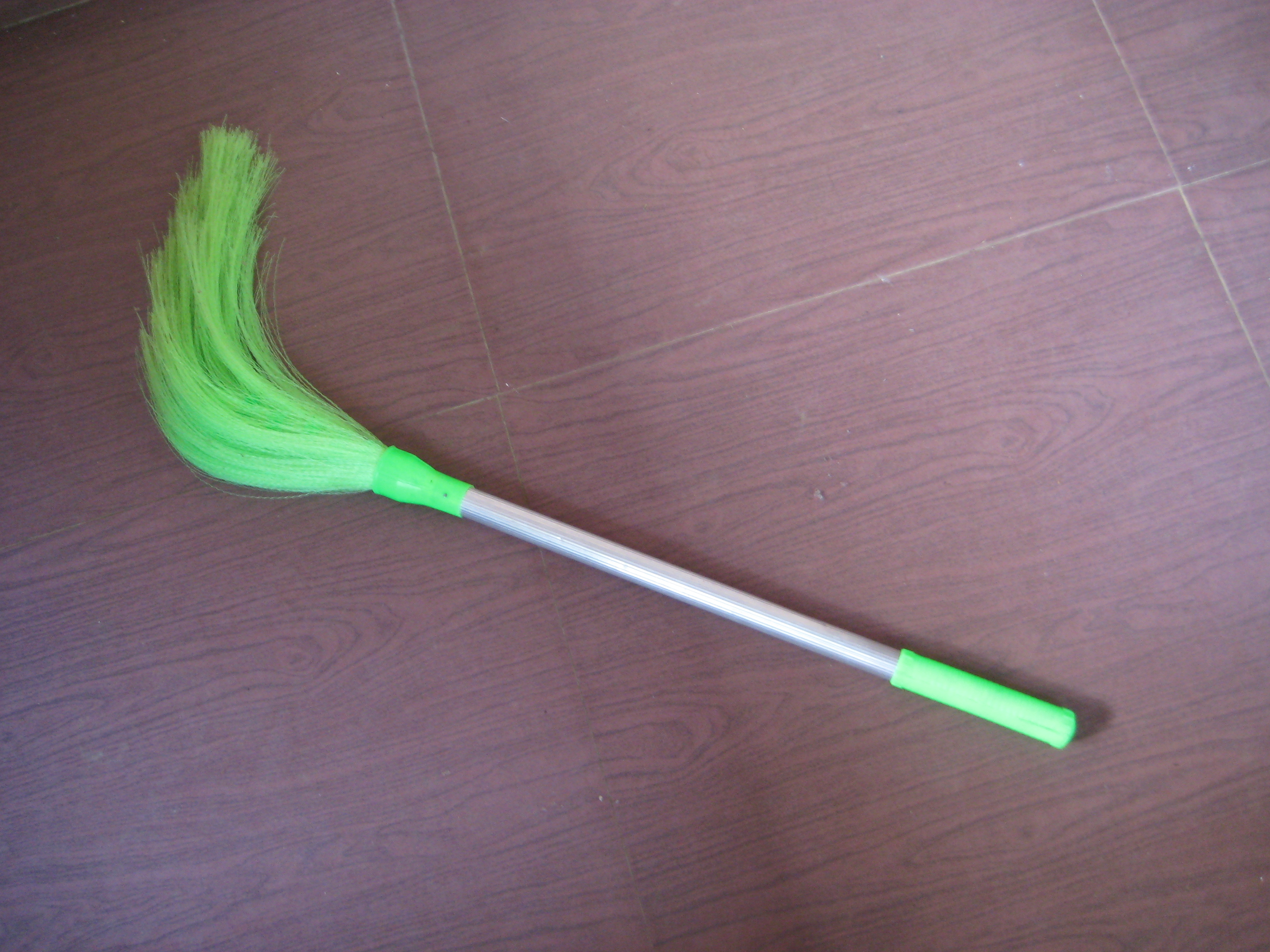 Broom